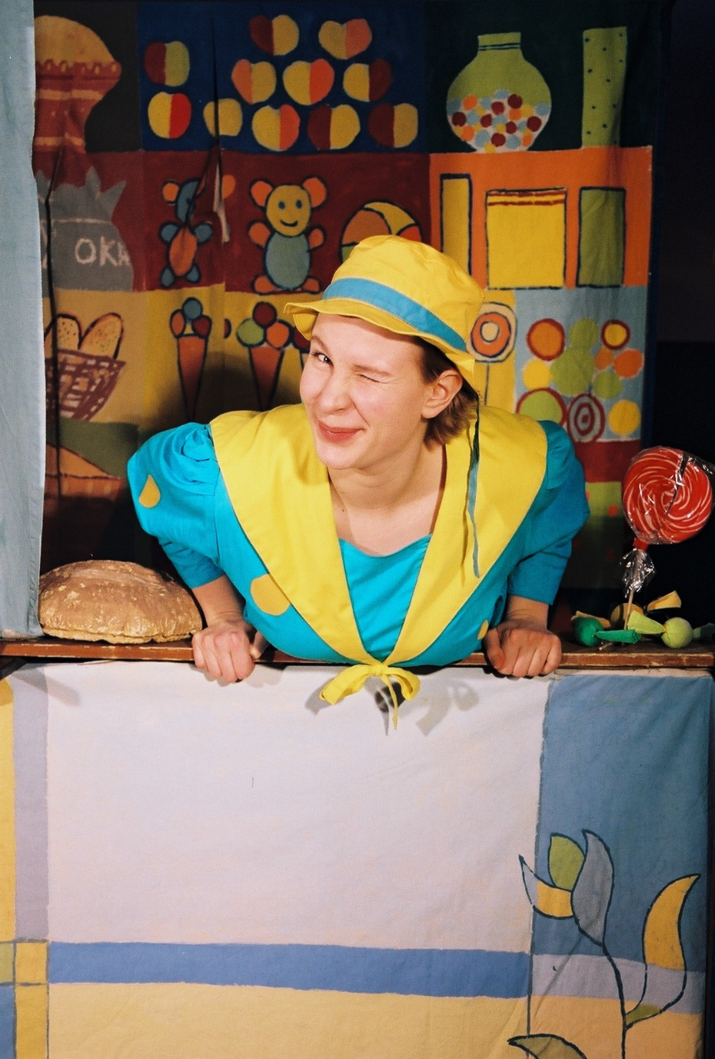 Od kod si, kruhek?